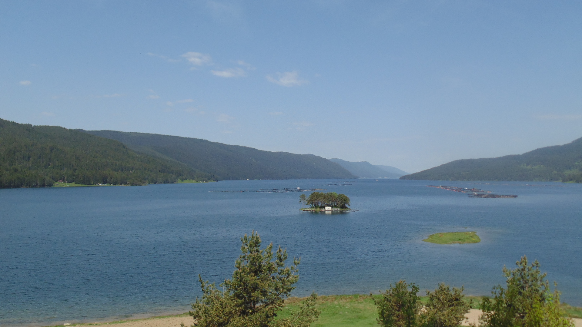 Dospat Dam